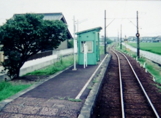 Meitetsu Tanigumi line Inatomi Station (2001)